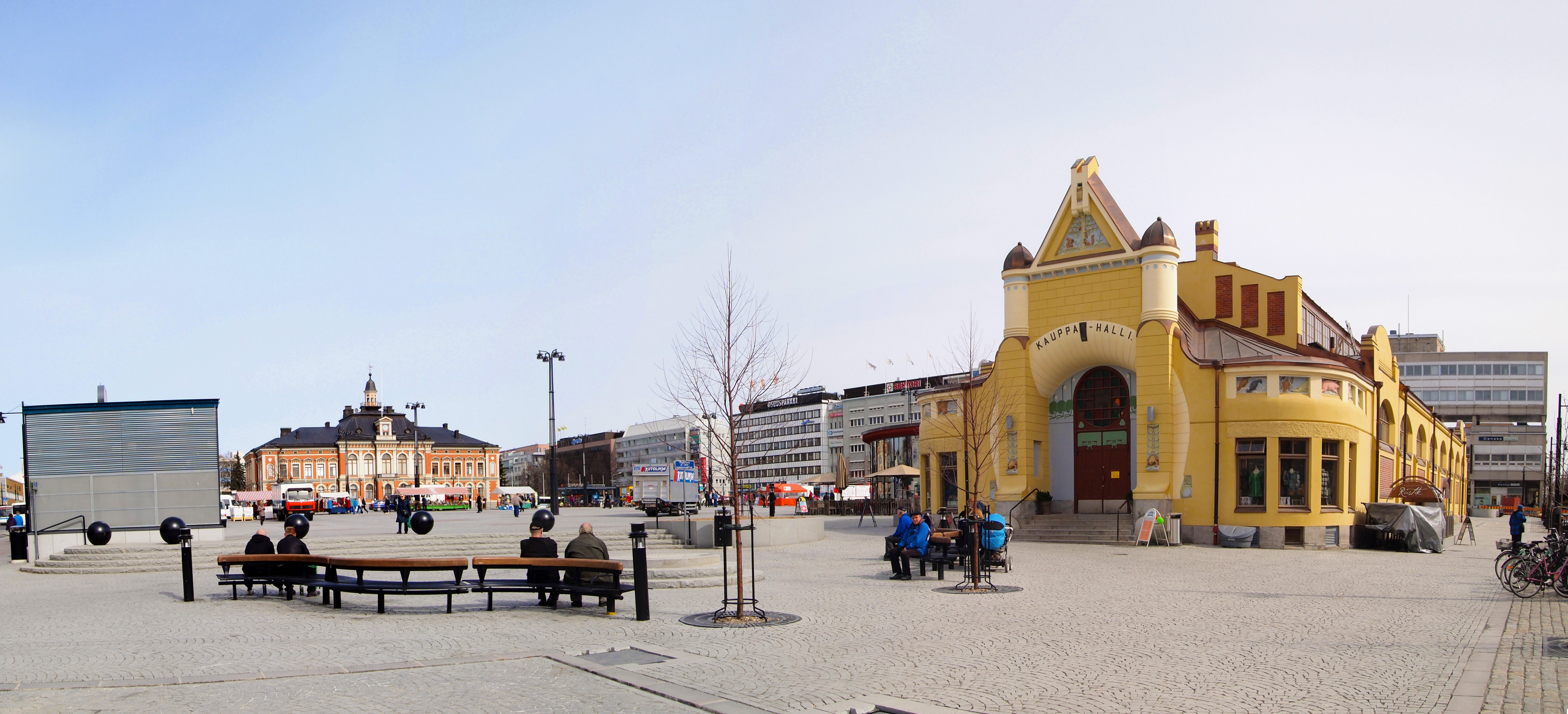 Kuopio Market Square. This photograph was taken with an Olympus E-PL1